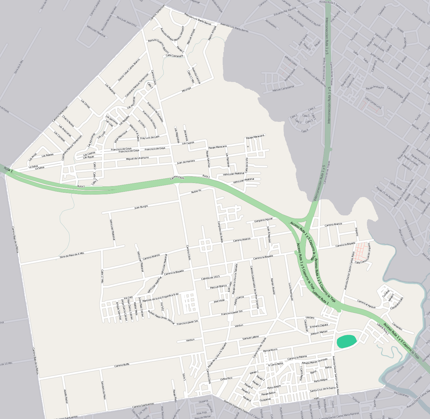 Street map of La Paloma - Tomkinson, Montevideo, exported from OpenStreetMap. I added shading to delimit the barrio. This map may be incomplete, and may contain errors. Don't rely solely on it for navigation.